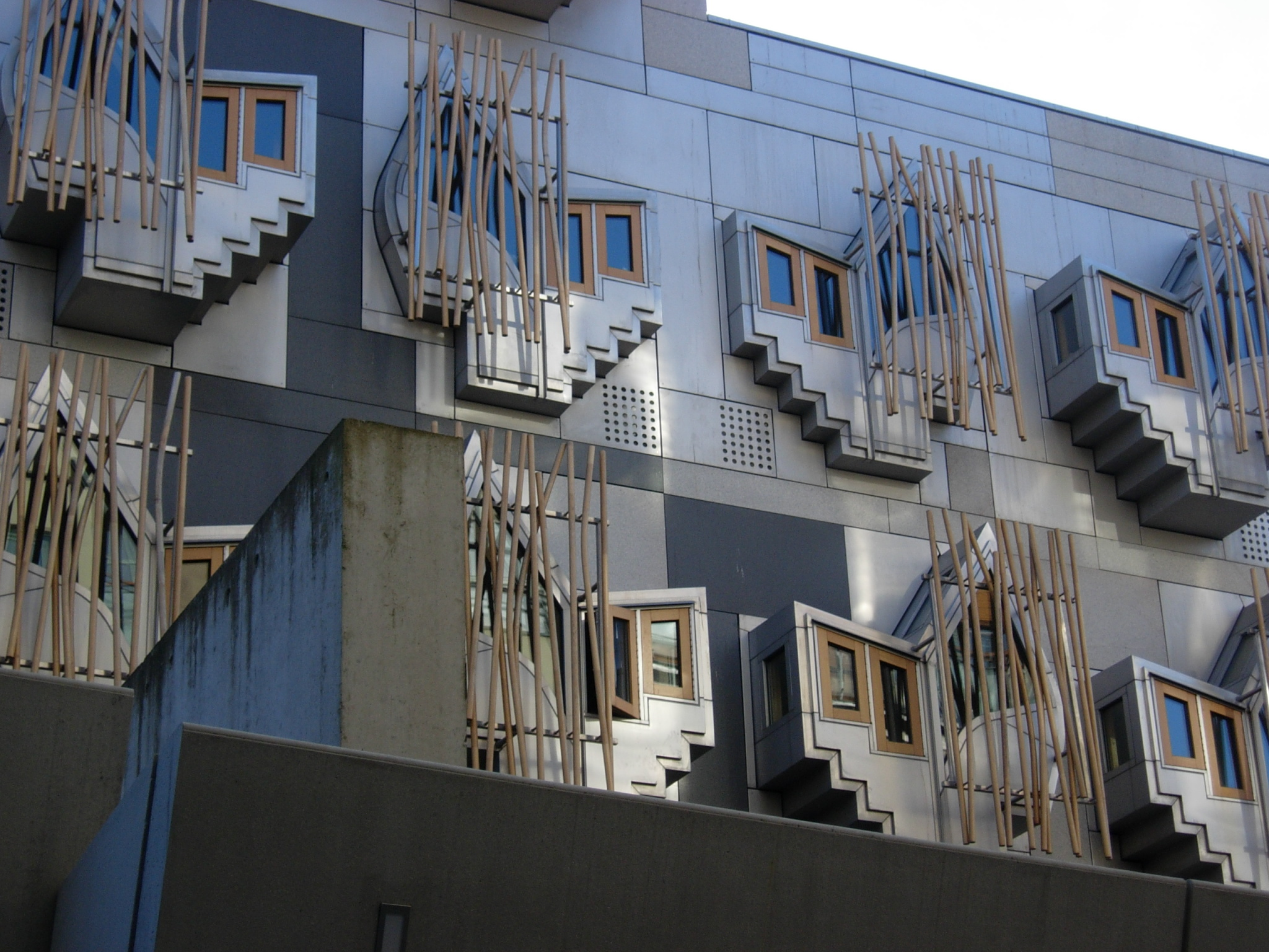 Scottish parliament during 'Make poverty history' day 050702